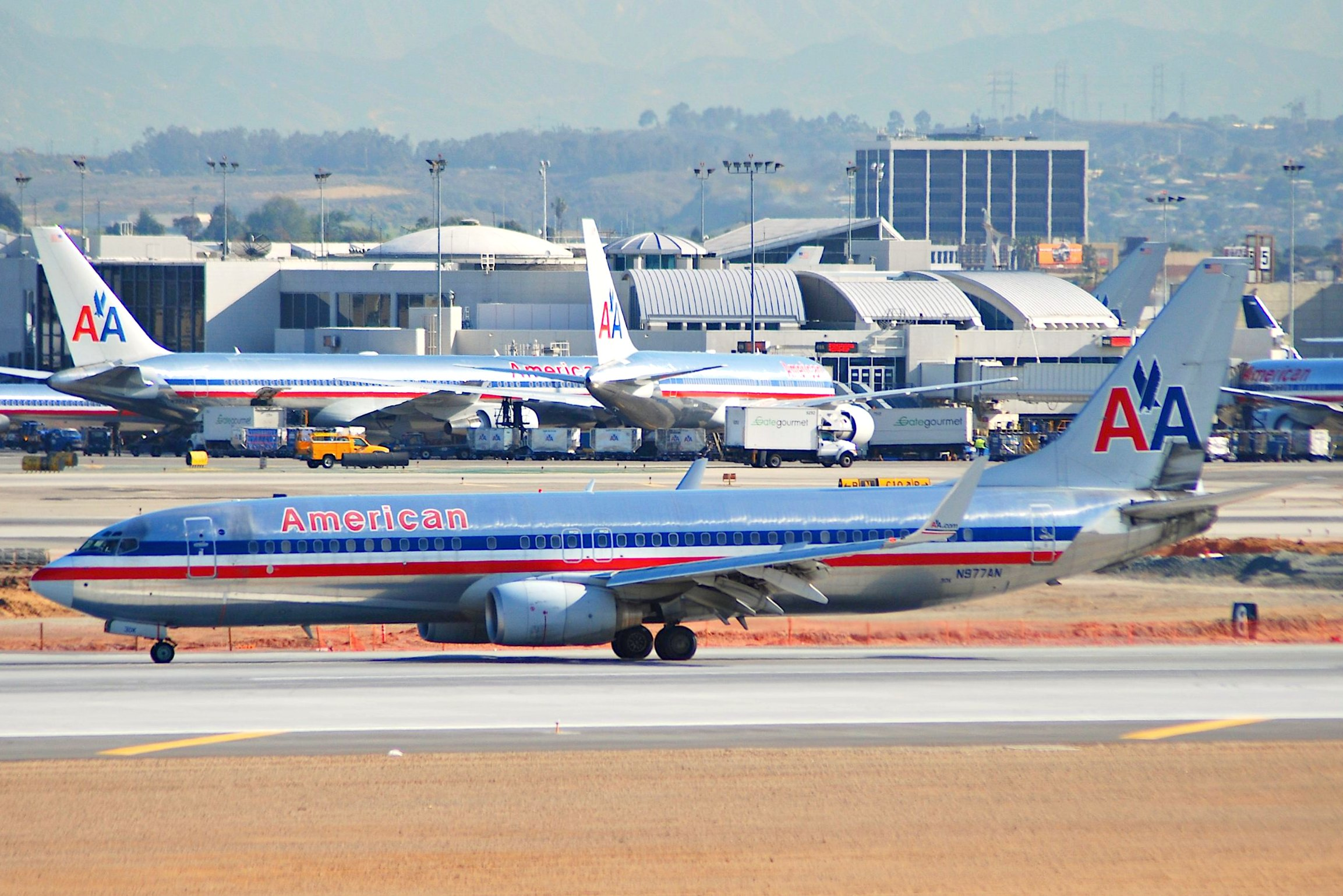 This Boeing 737-823 (winglets) crashed at Kingston, Jamaica, on December 23, 2009.